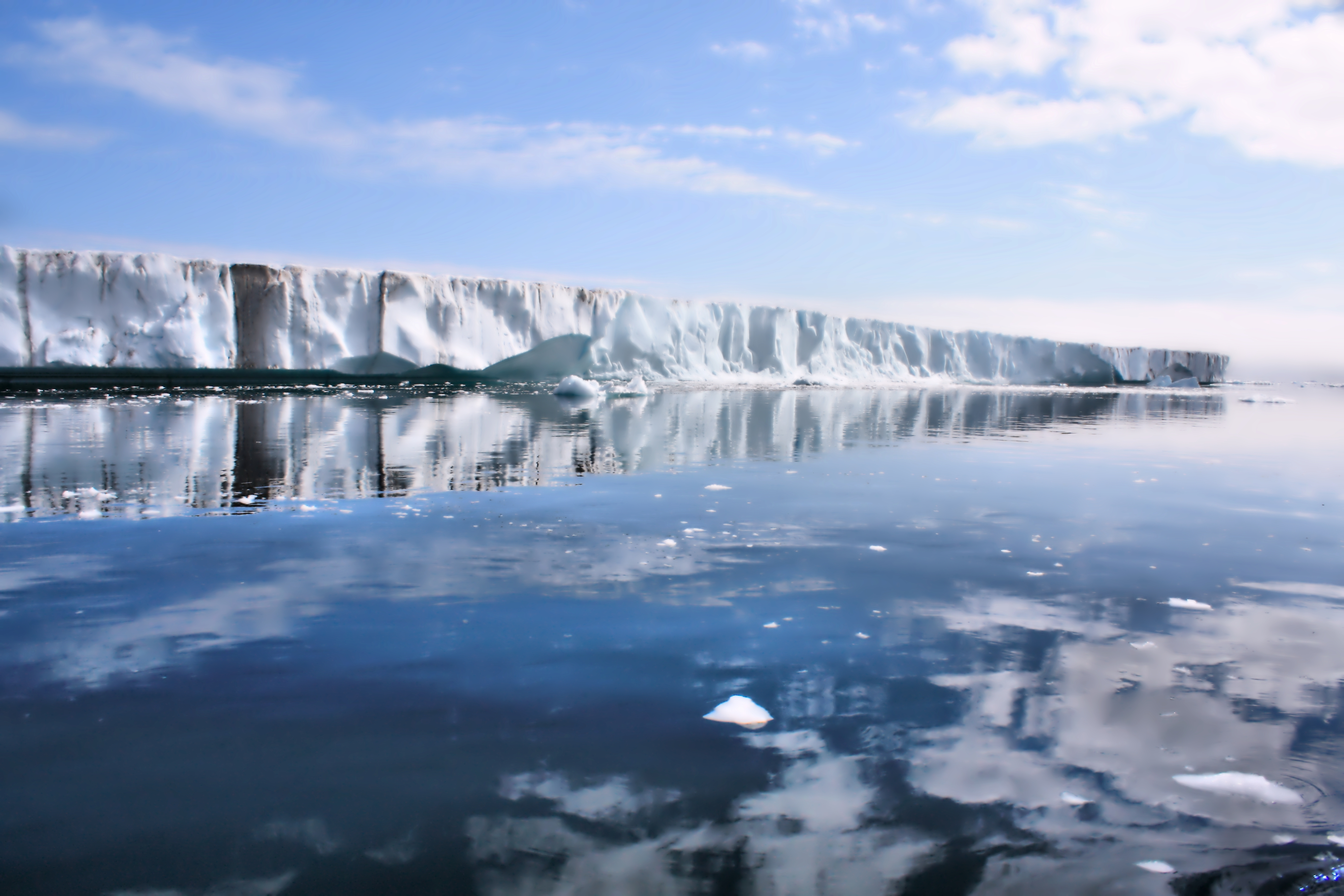 Tasiilaq Greenland is an icy wonderland inhabited by teams of sled dogs, colossal glaciers, and home to the world's second largest ice sheet. Read my article at Suite101